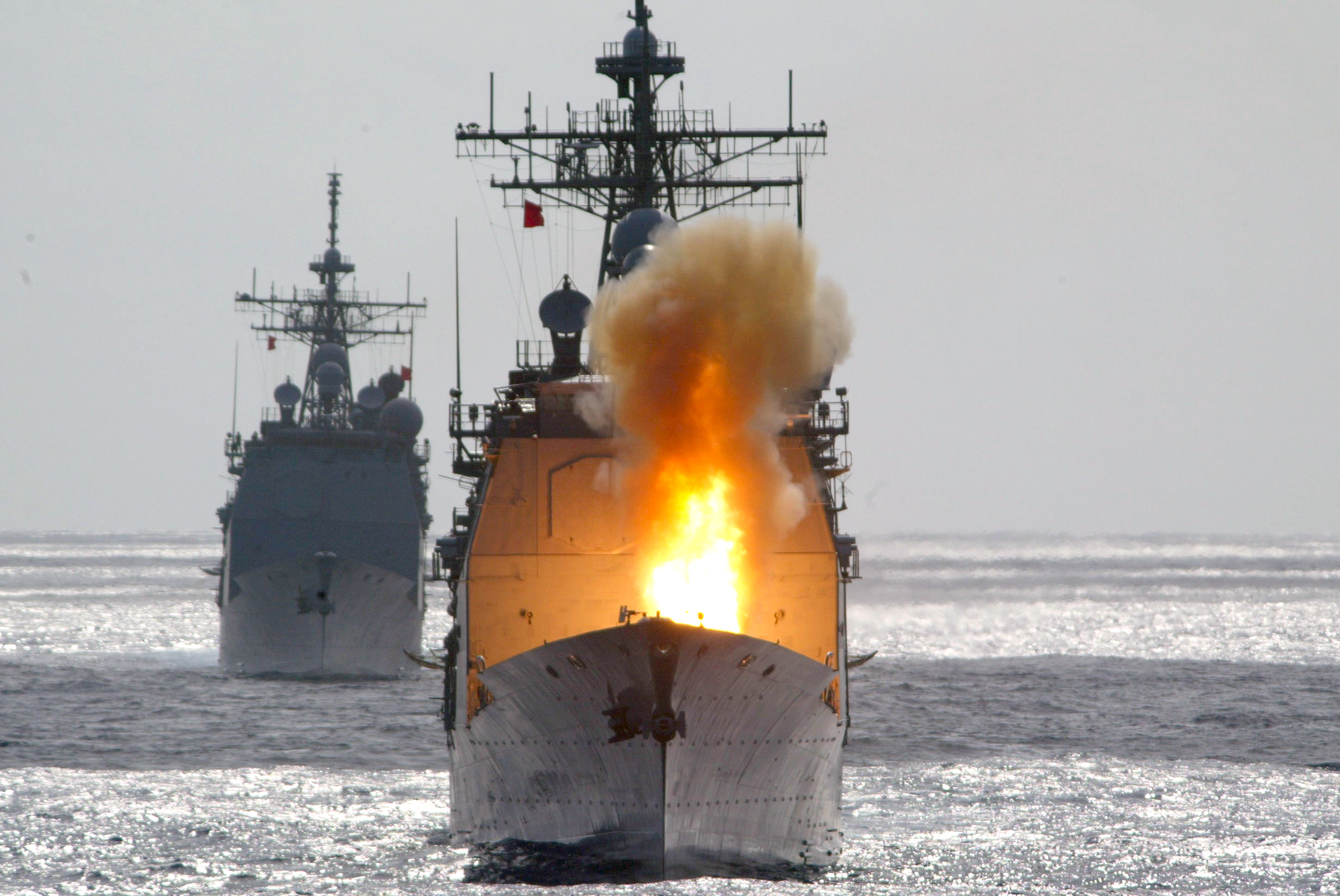 031105-N-0000M-001 At sea aboard USS O'Brien (DD 975) Nov. 5, 2003 – The guided missile cruiser USS Chancellorsville (CG 62) fires a surface-to-surface Standard Missile during MISSILEX 04-1, while underway in the western Pacific Ocean with the cruiser USS Cowpens (CG 63) following close behind. MISSILEX 04-1 involves firing missiles at controllable target drones provided by Commander Fleet Activities Okinawa’s ordnance department. The drones were launched from O’Brien and each missile fired was equipped with telemetry-gathering instrumentation to provide an accurate assessment of missile performance. U.S. Navy photo by Intelligence Specialist 1st Class Roberto Montoto. (RELEASED)